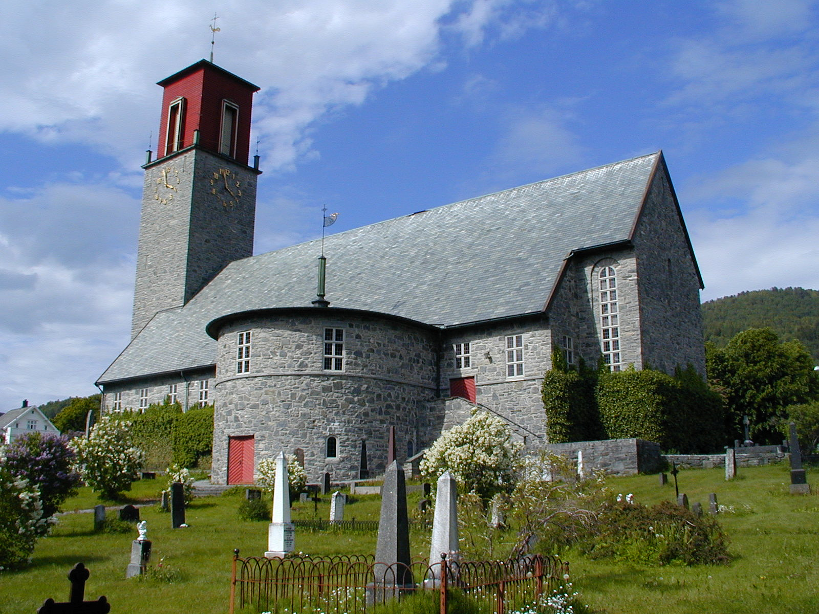 Volda kirke fra sørøst. Foto: Max Ingar Mørk, fra Kulturminnebilder.no.